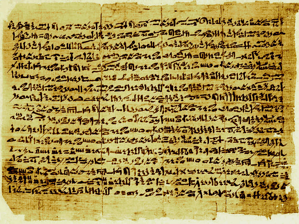 Papyrus Hearst, Plate 2